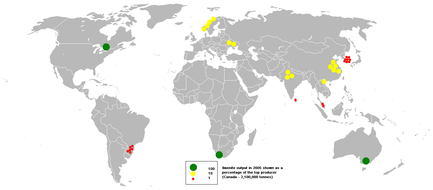 This bubble map shows the global distribution of ilmenite output in 2005 as a percentage of the top producer (Canada - 2,100,000 tonnes). This map is consistent with incomplete set of data too as long as the top producer is known. It resolves the accessibility issues faced by colour-coded maps that may not be properly rendered in old computer screens. Data was extracted on 16th June 2007. Source - Based on :Image:BlankMap-World.png